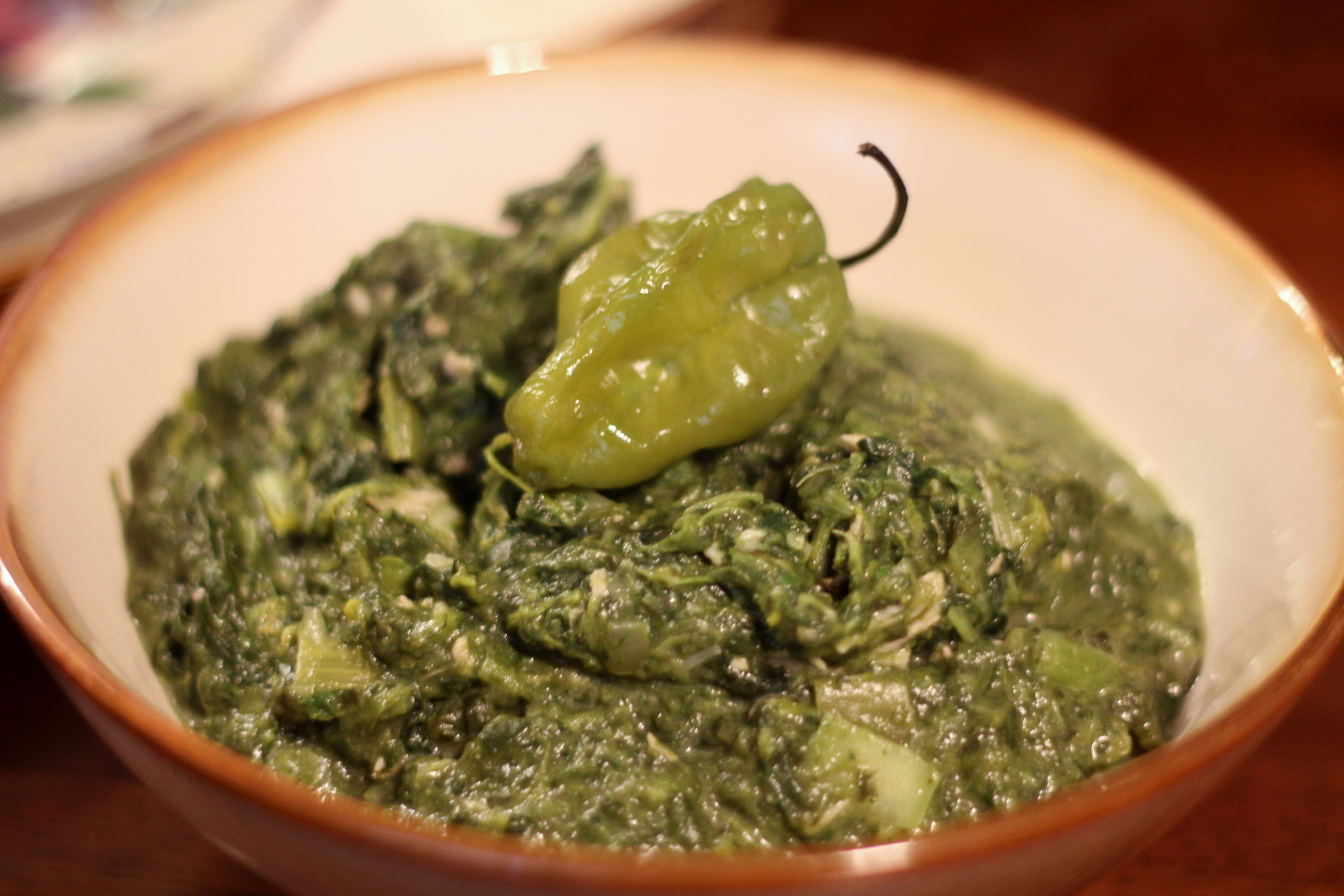 Callaloo prepared and displayed by Petra Lapiste of at her Trinidadian cooking event in Yokisuka, Japan, 29 January 2012. Photographed by Shivonne Du Barry.